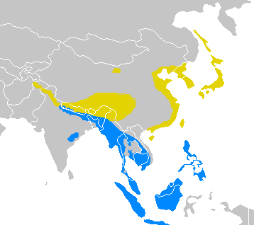 range of Asian House Martin Delichon dasypus